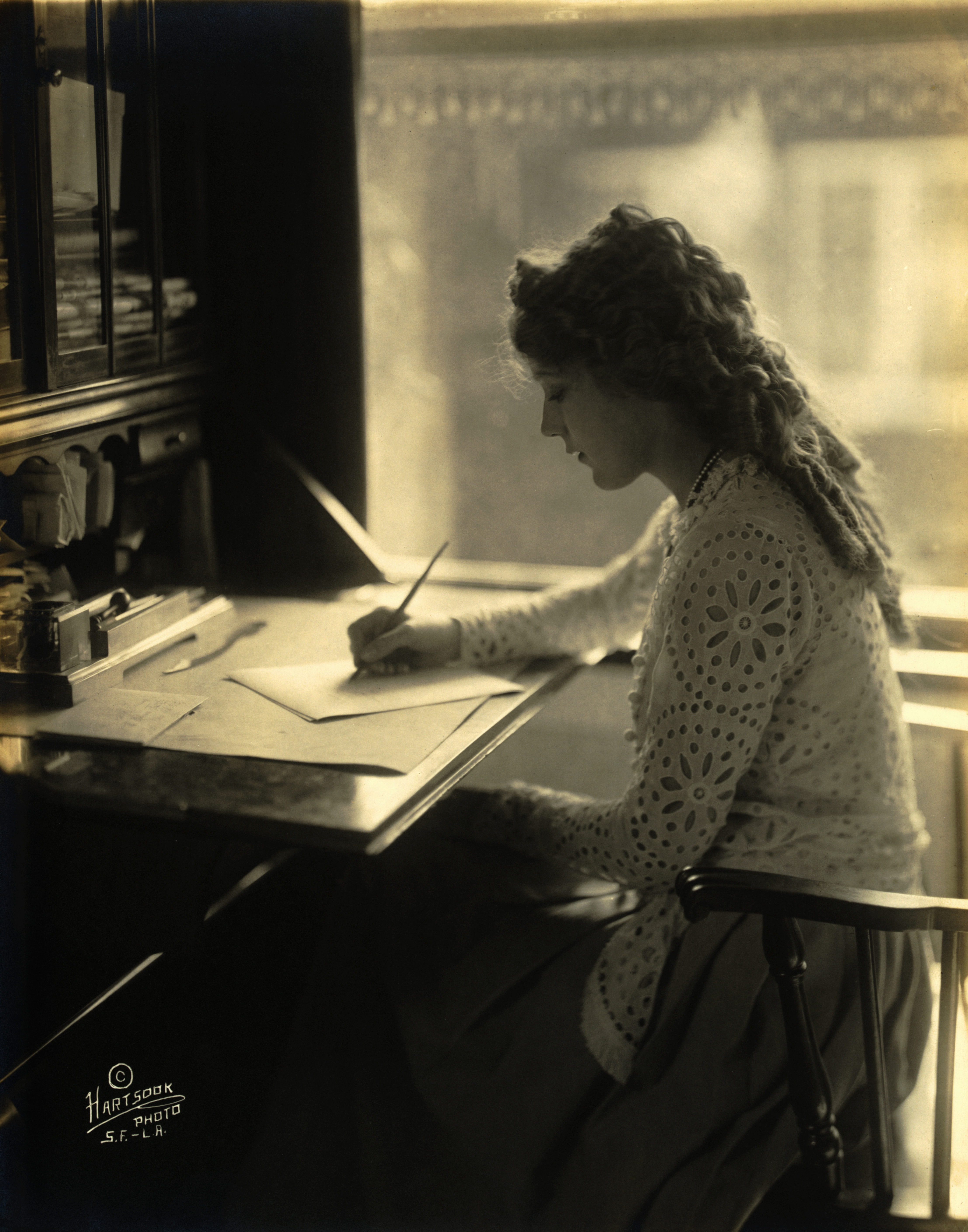 Mary Pickford writing at a desk.